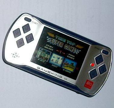 A GameKing III NES hardware clone with a cartridge and its box.